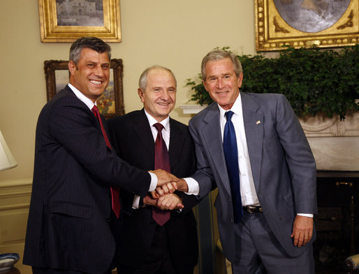 President of US George W. Bush shakes hands with Kosovo President Fatmir Sejdiu, center, and Kosovo Prime Minister Hashim Thaci, left, during a meeting Monday